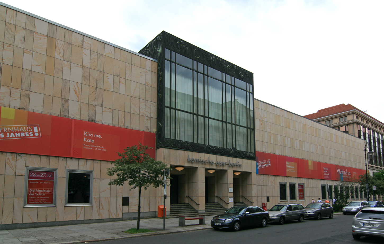 Komische Oper, Berlin.